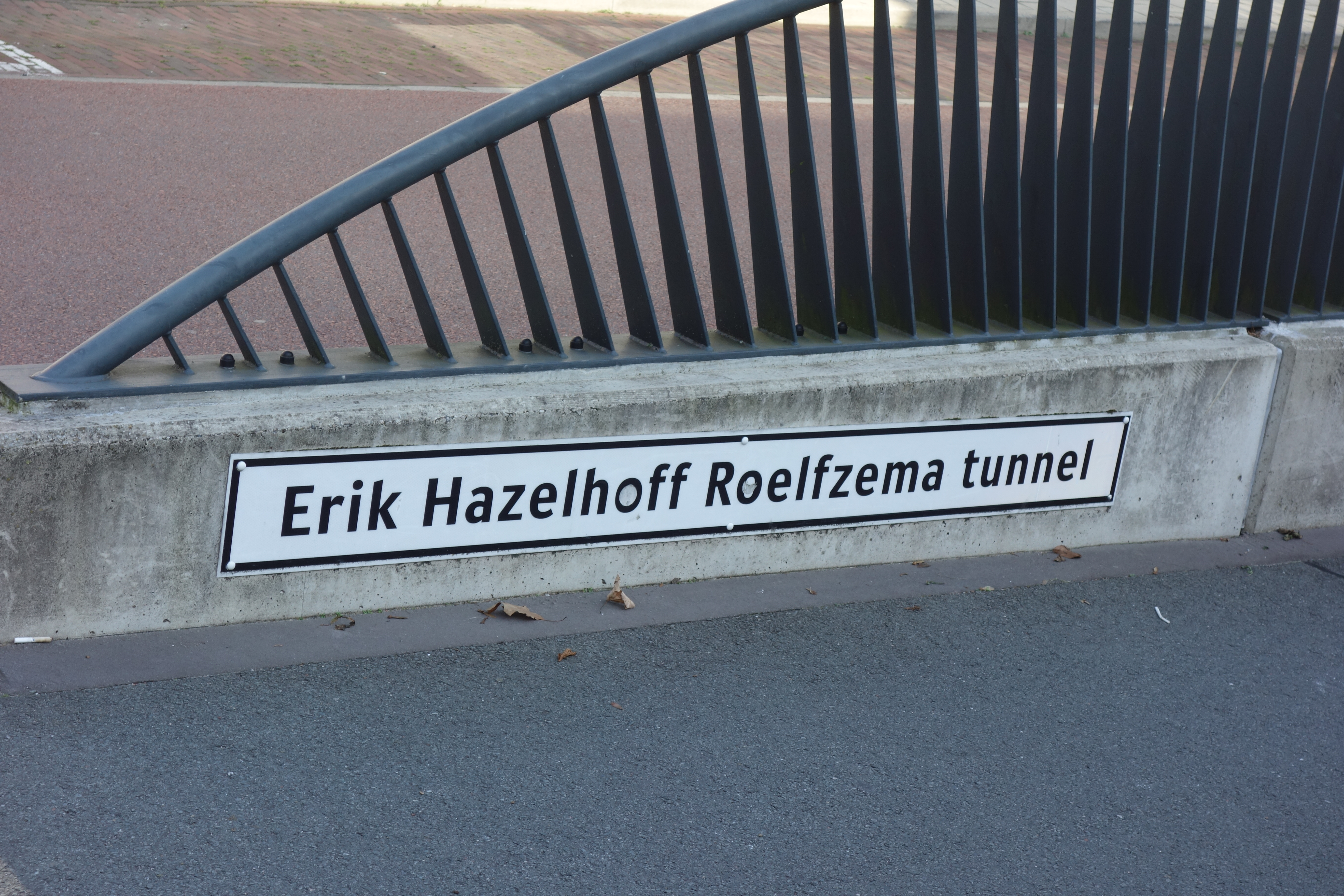 Erik Hazelhoff Roelfzema tunnel, Wassenaar (the Netherlands)